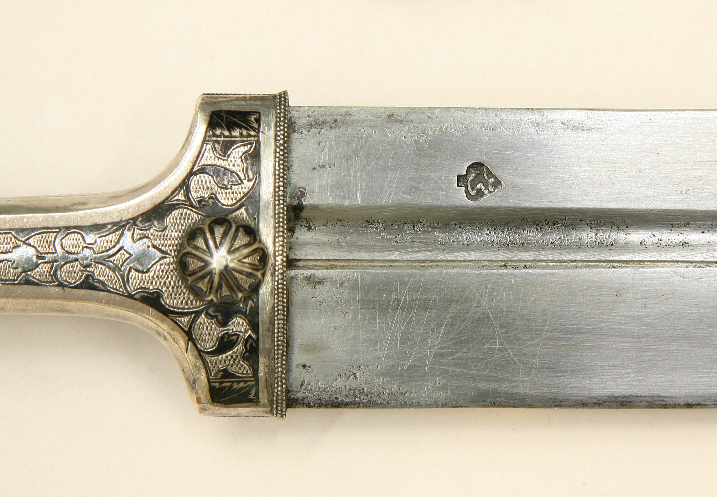 Caucasian, possibly Kubachi, Dagestan; Dagger (Kindjal) with scabbard; Daggers